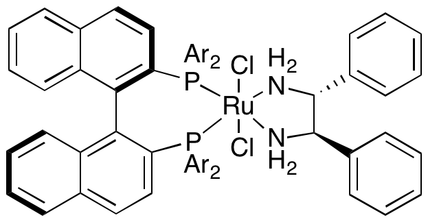 An archetypal structure for Noyori's asymmetric ketone hydrogenation catalyst